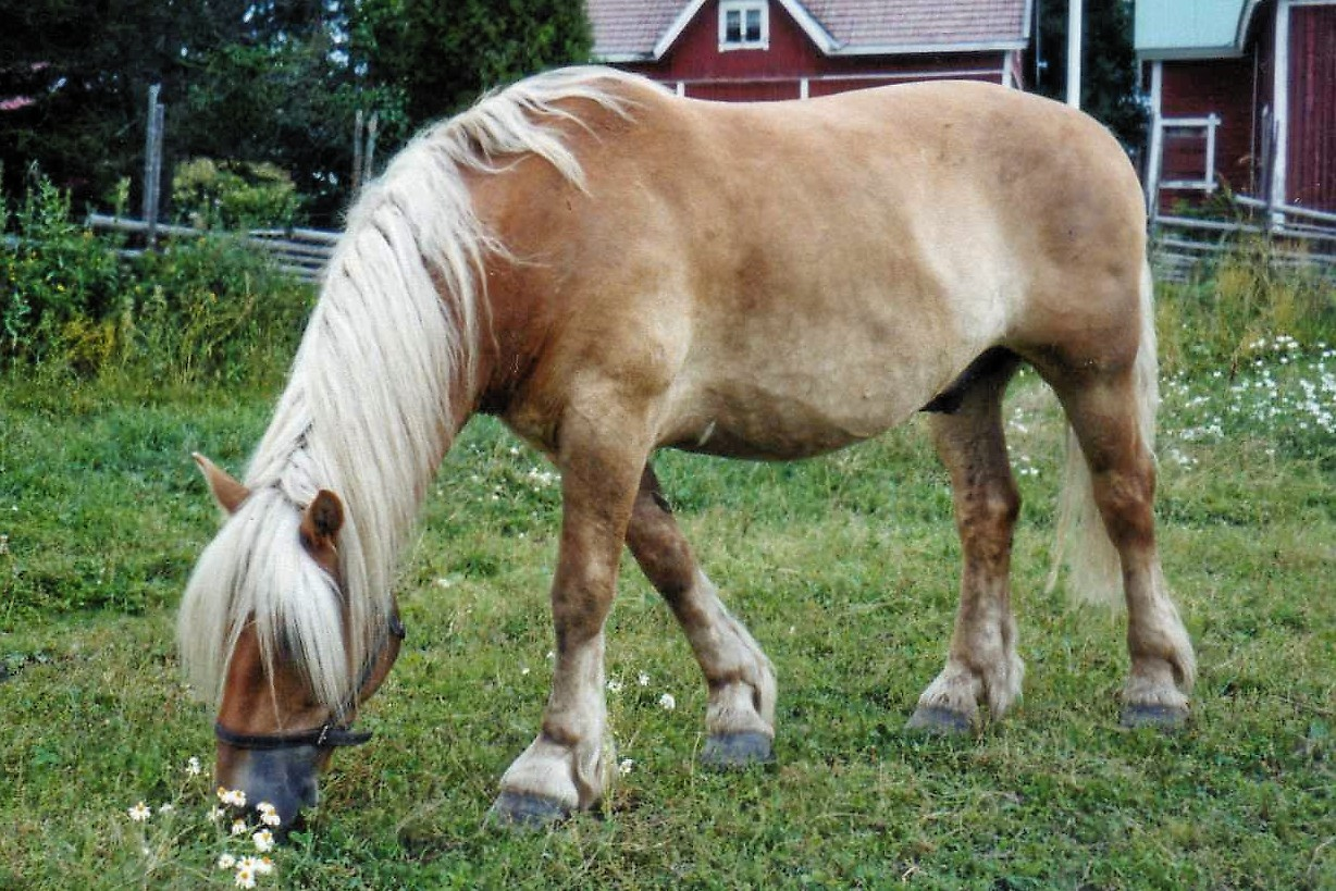 Chestnut North swedish horse gelding